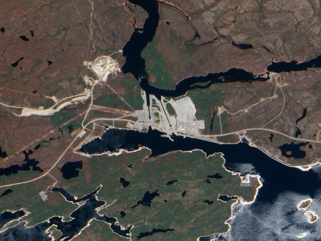 Hydro-Québec's Eastmain-1 (507 MW) and Eastmain-1-A (768 MW) hydroelectric generating stations in Northern Quebec. (cropped image)